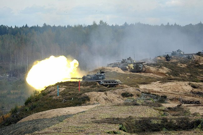 The final stage of the Zapad-2013 Russian-Belarusian strategic military exercises.